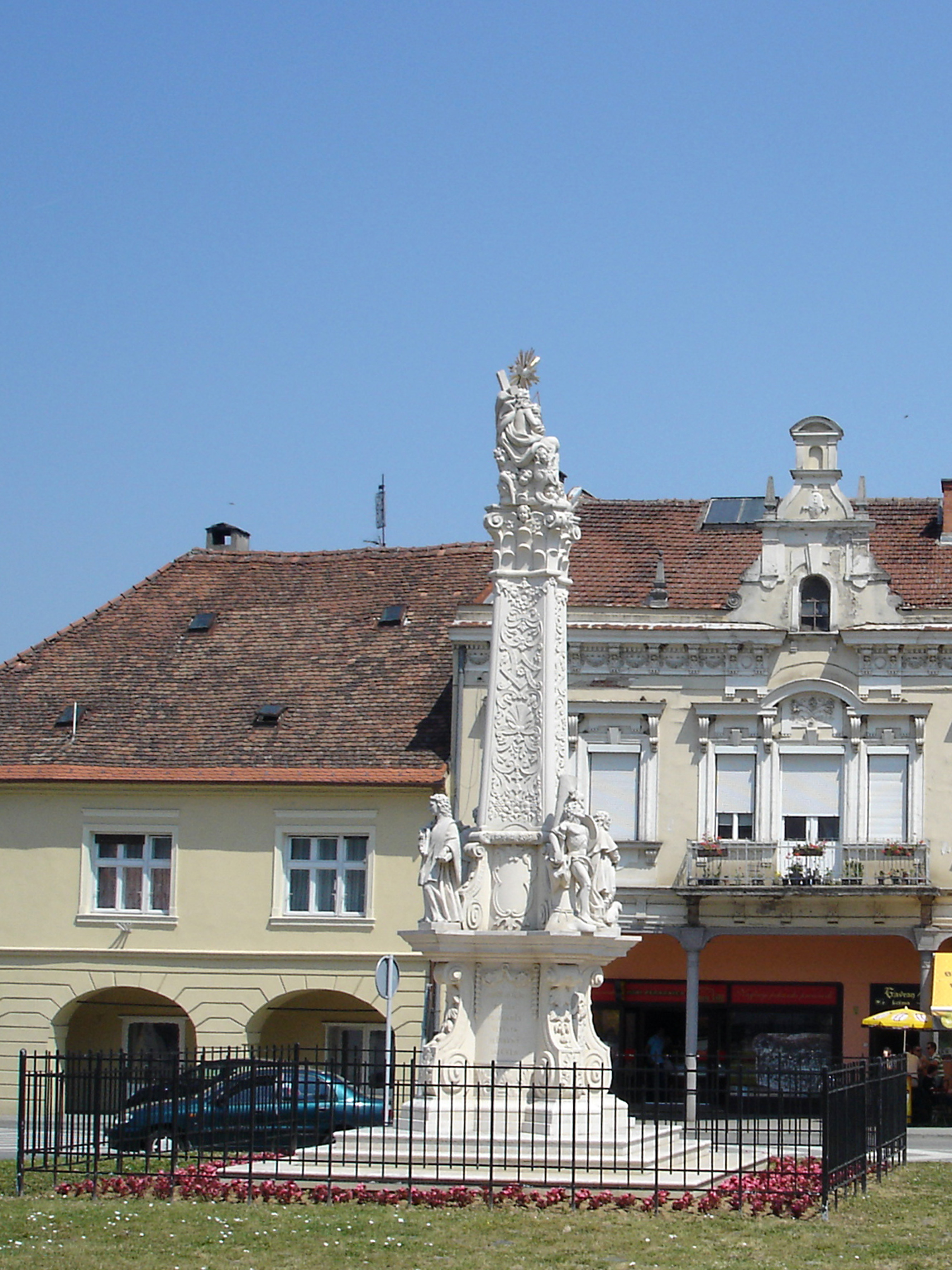 Plague pillar st Trinity in Požega